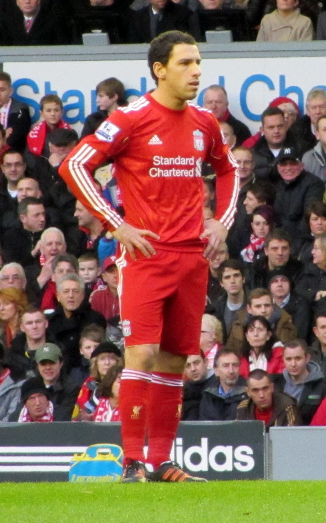 Rodríguez during a game at Anfield against Blackburn Rovers